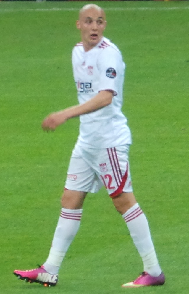 Aatif Chahechouhe Sivas formasıya